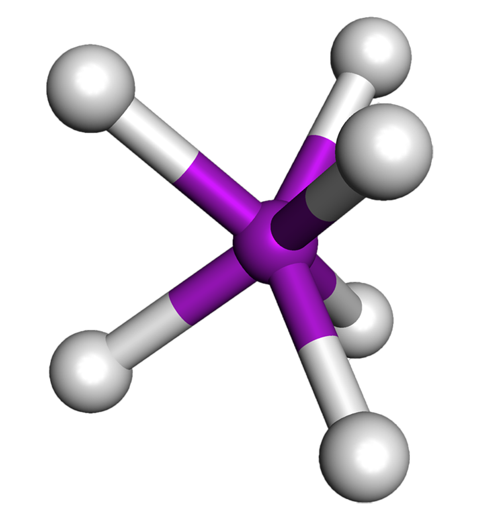 An example of prismatic trigonal geometry. Modelated by Discovery Studio 3.1 Visualizer. Cleaned in Pshop